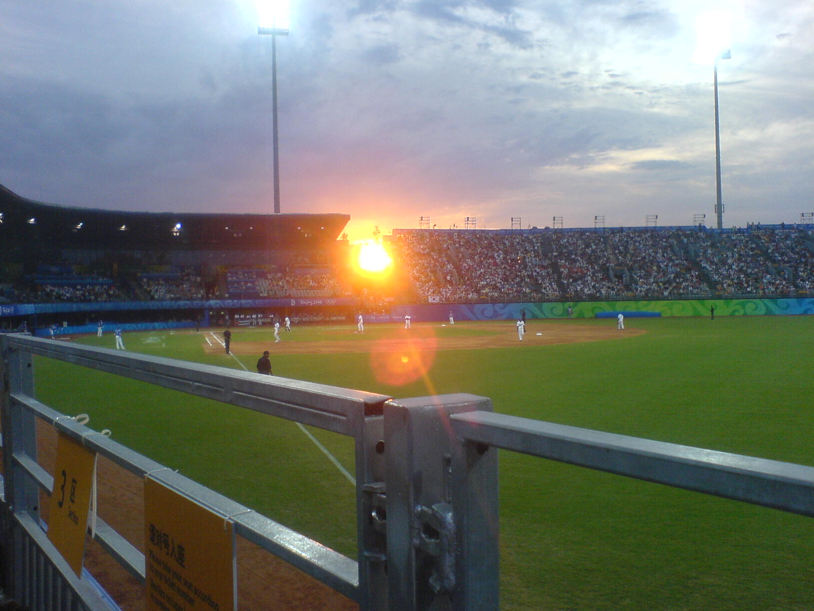 2008 Beijing Olympics Baseball Final, Korea Republic vs Cuba.